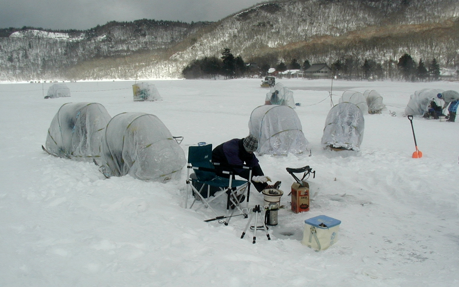 Ice fishing on Ōnuma (Maebashi,Gunma,Japan)